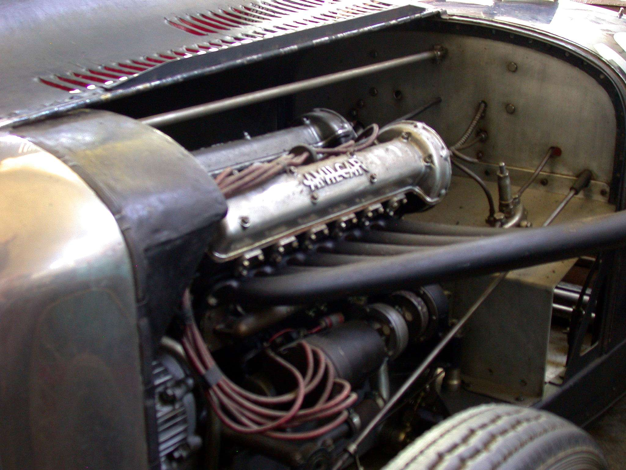 Amilcar 6 cylinder engine